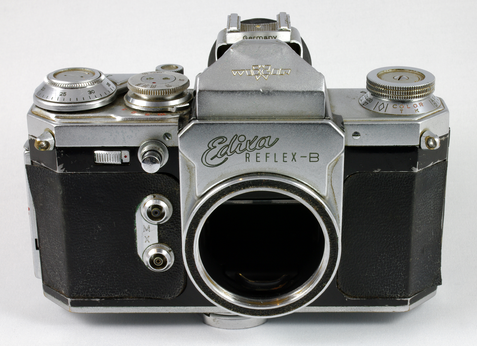 The SLR camera Edixa Reflex-B from Wirgin; body was bought ~ in 1957/58 in Germany. This model is constructed with a removable and exchangeable viewfinder. In this case, a pentaprism finder (little dented) is mounted.